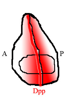 Distribution pattern of the morphogen Decapentaplegic in the Drosophila wing imaginal disc